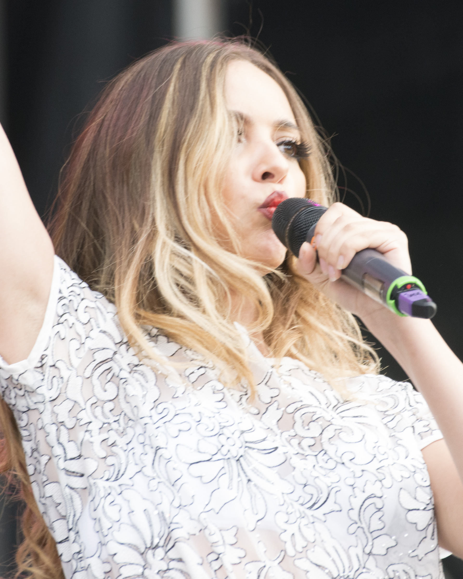 Little Mix at the Gibraltar Music Festival.